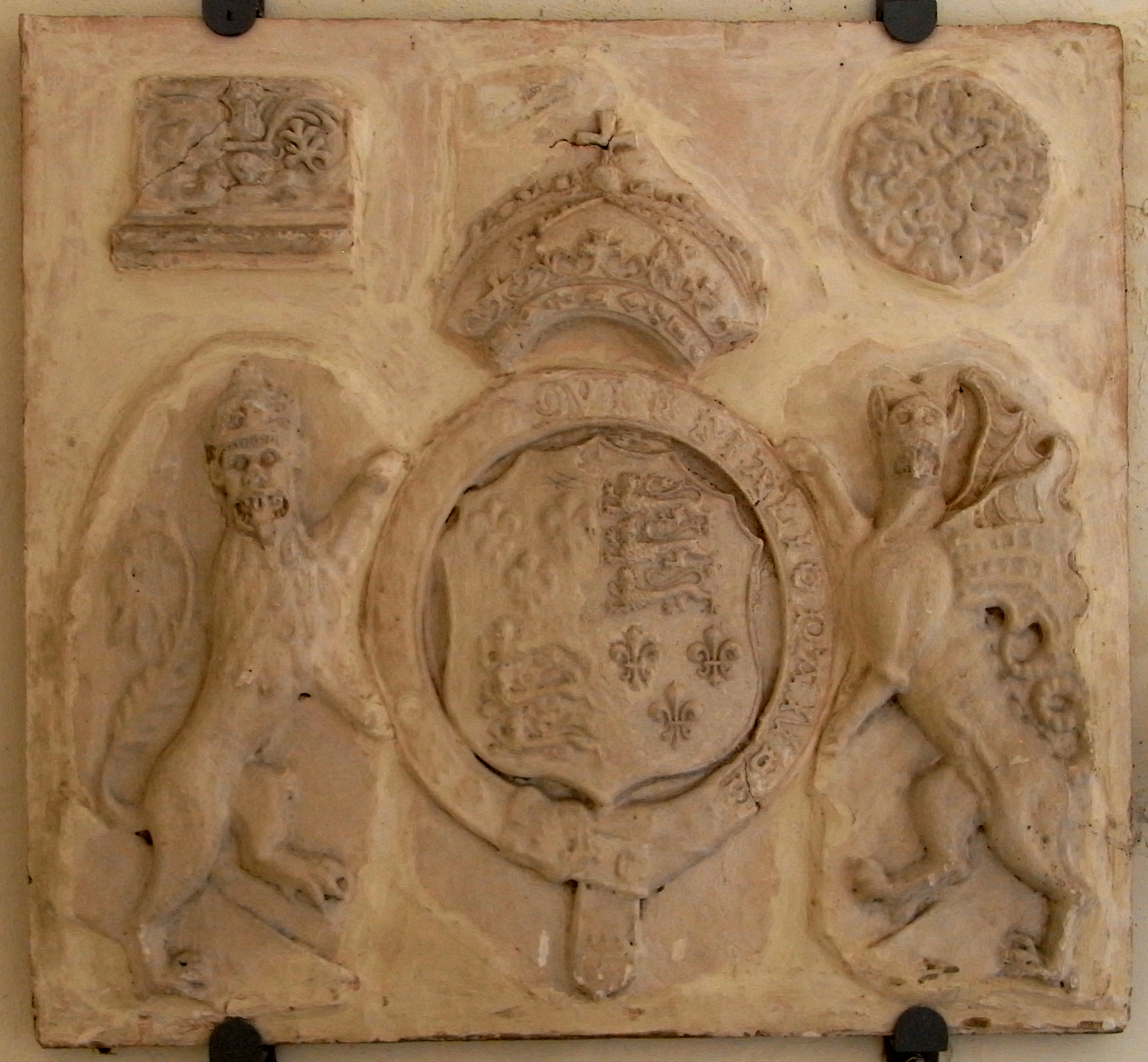 Large 16th century relief-sculpted stone tablet displaying the royal arms of one of the Tudor monarchs with other heraldic elements, formerly at Moor Hayes, in the parish of Cullompton, Devon, now displayed in Tiverton Museum (item TIVMS: 1977.727). Tiverton Museum Catalogue entry: "Identification: Insignia; coat of arms, stone; carved stone Tudor royal coat-of-arms; thistle and shamrock over lion on left, Tudor rose over Welsh dragon on right, central crown over motto national government. Production: Tudor. Association: Moorhayes, Cullompton, Devon. Description: material: stone; colour: cream; condition: good; completeness: complete; h x w 1000mm x 1000mm (approx); carved below crown: Honi Soit Qui Mal Y Pense". These heraldic supporters were used by almost all the monarchs of the Tudor dynasty (1485-1603): by King Henry VII (Compare File:WLA vanda Water Cistern Tile bearing the arms of Henry VII and his wife.jpg) and by his son King Henry VIII and by the latter's son King Edward VI and by the latter's half-sister Queen Elizabeth I. It is therefore not possible to assign the panel to a specific reign. The shape of the shield (for jousting) is however characteristic of the earlier part of the Tudor era, and the emphasis on post-Wars of the Roses insignia may also suggest an earlier date.